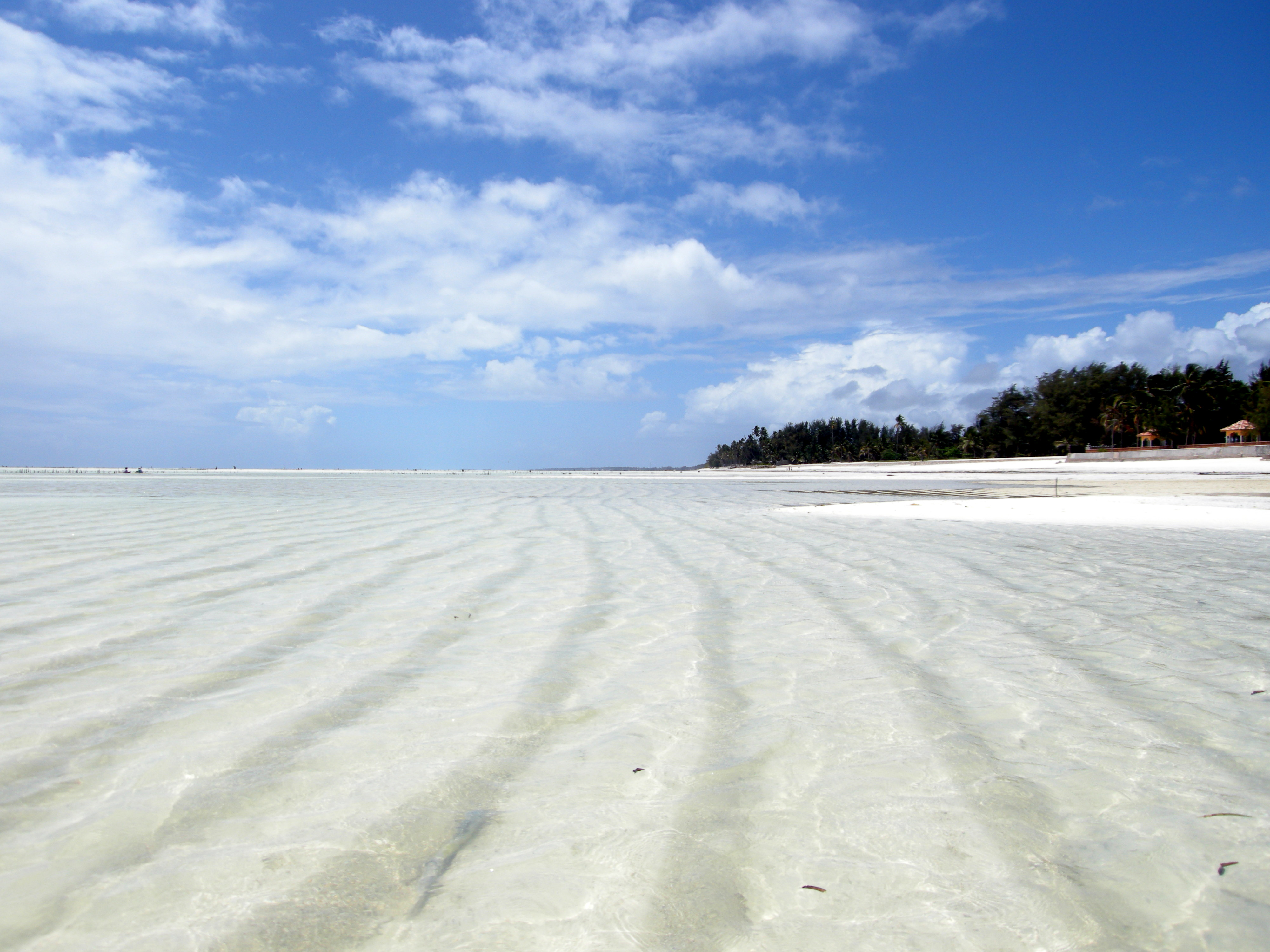 Paje beach at low tide